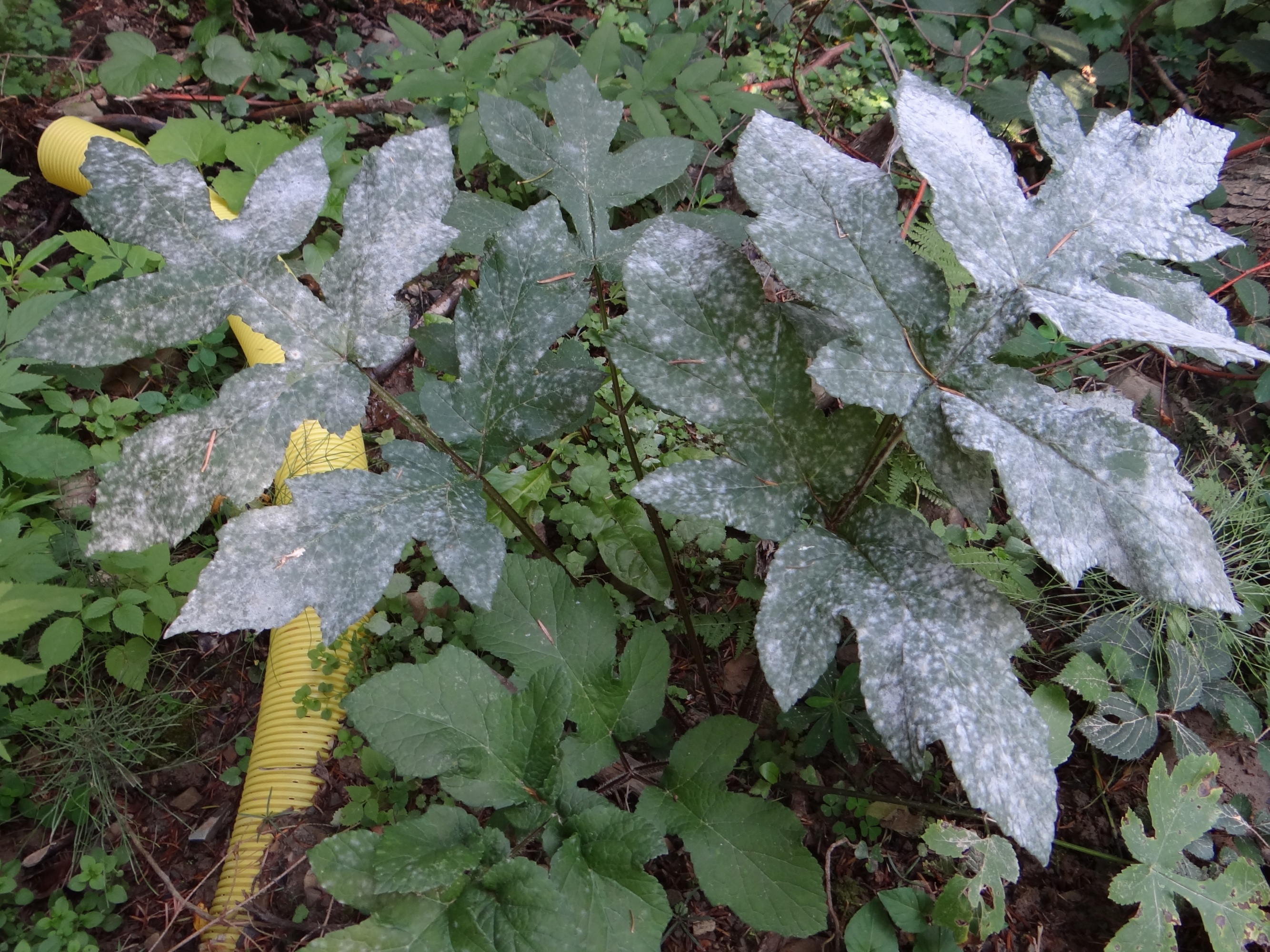 Erysiphe heraclei on Heracleum sphondylium (location: Poland, Gorce, Gorc)